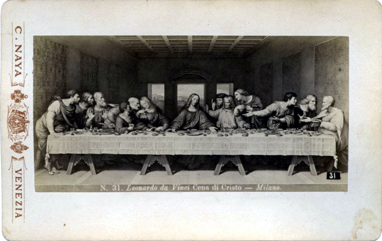 Carlo Naya (1816-1882) - "Leonardo da Vinci. Last Supper. Milan". Catalogue # 31.